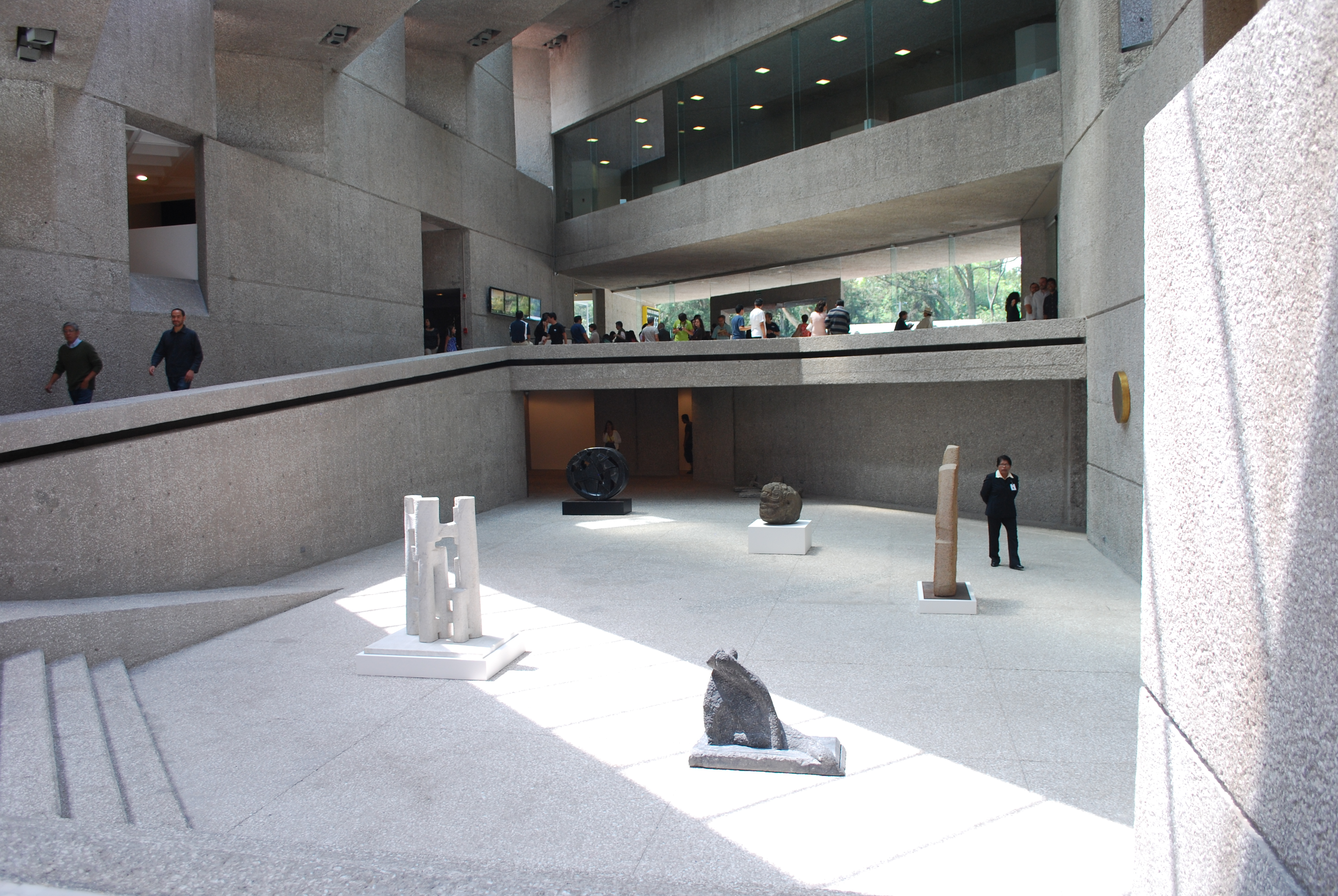 Interior courtyard of the Museo Tamayo in Mexico City